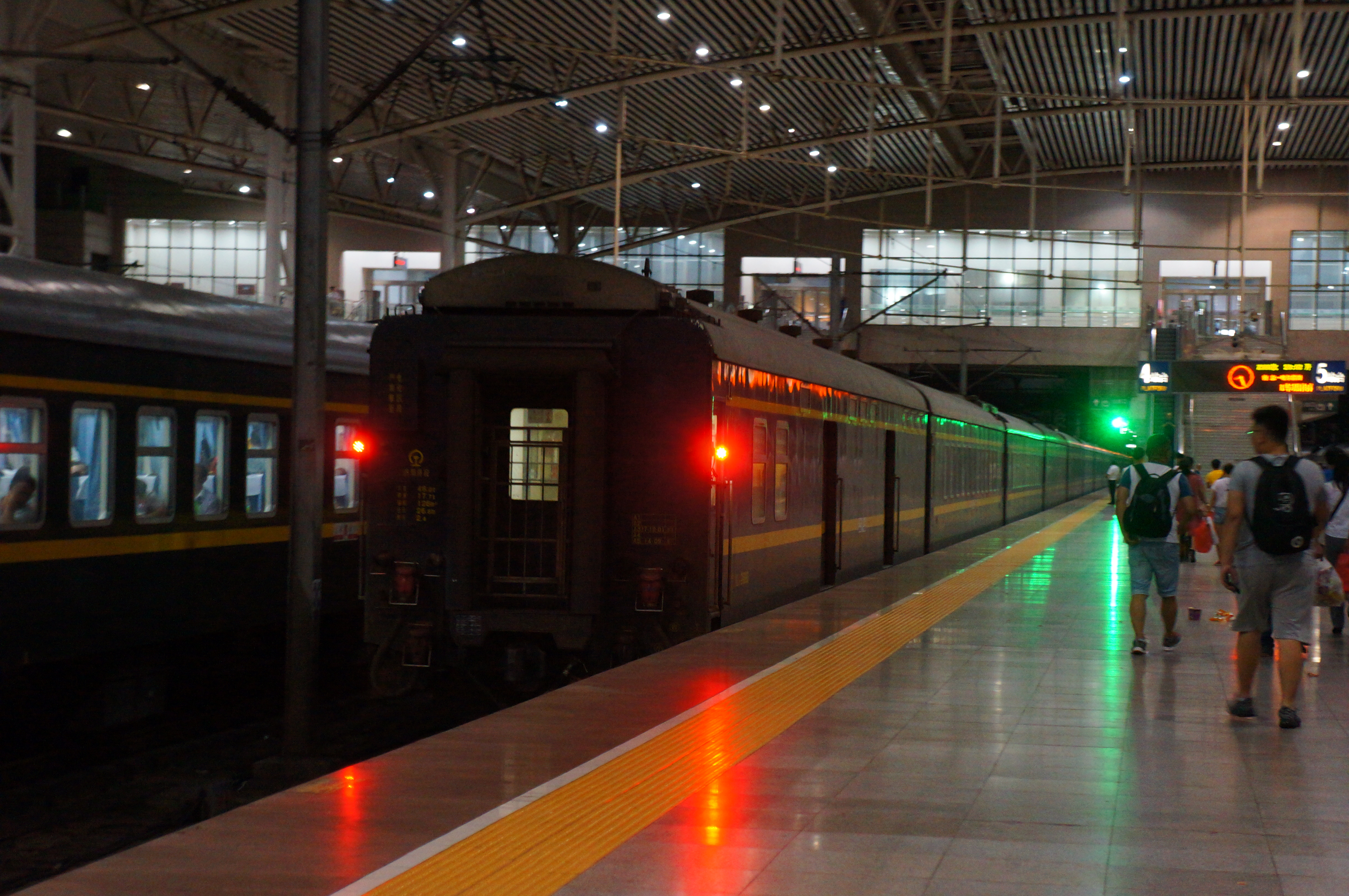 201806 Z168 from Guangzhoudong to Qingdao departs from Xuzhou Station